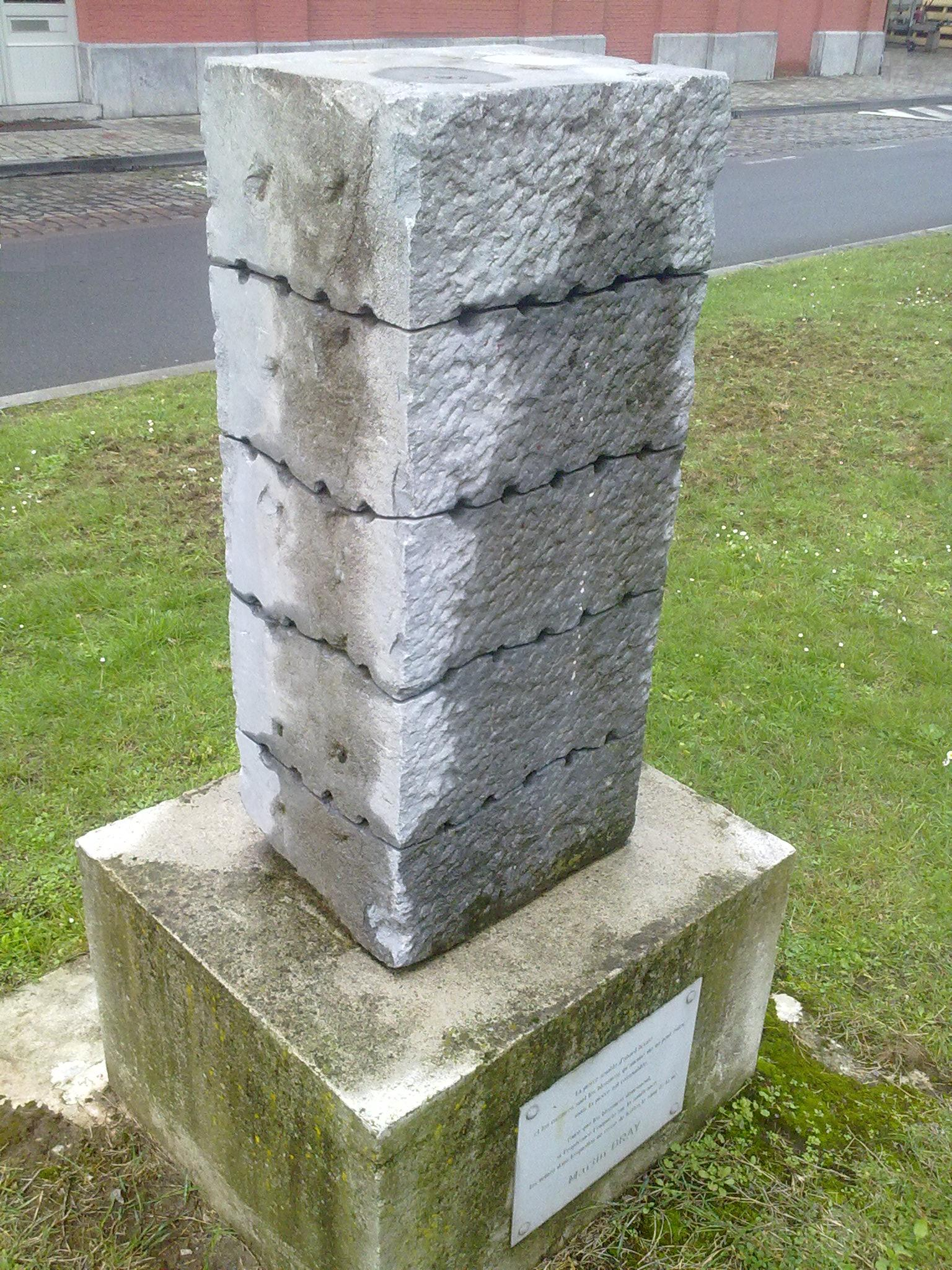 Martin Gray Monument in Brussels Stalle Train Station (Uccle borough)Belgium